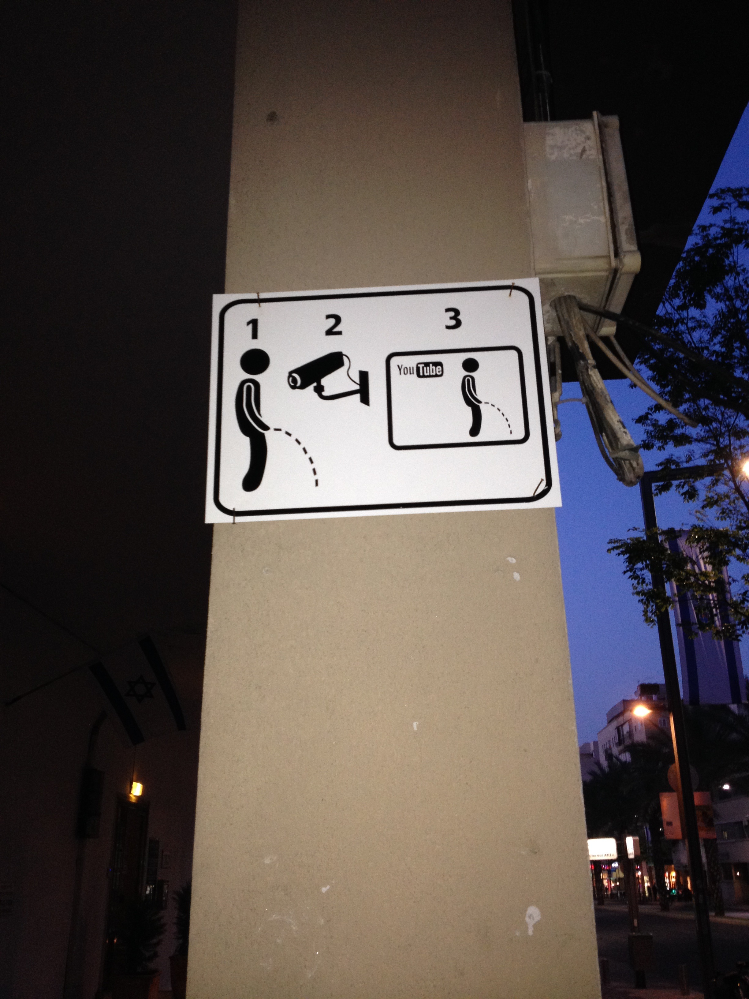 Shaming threat